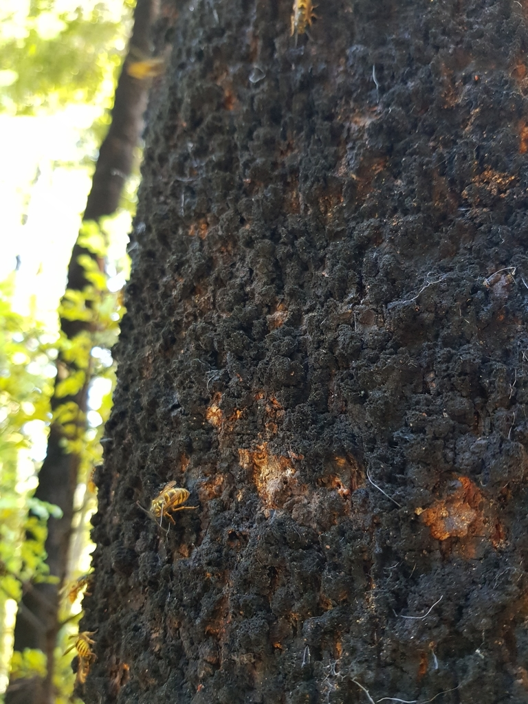 Sooty Beech Scale. Image taken on a walking track near Pelorus Bridge in Marlborough.